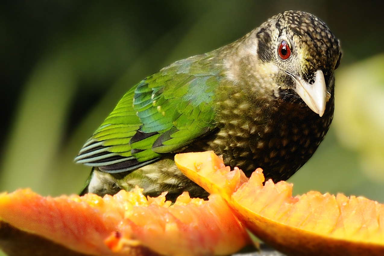 Spotted Catbird (Ailuroedus melanotis), Topaz, QLD